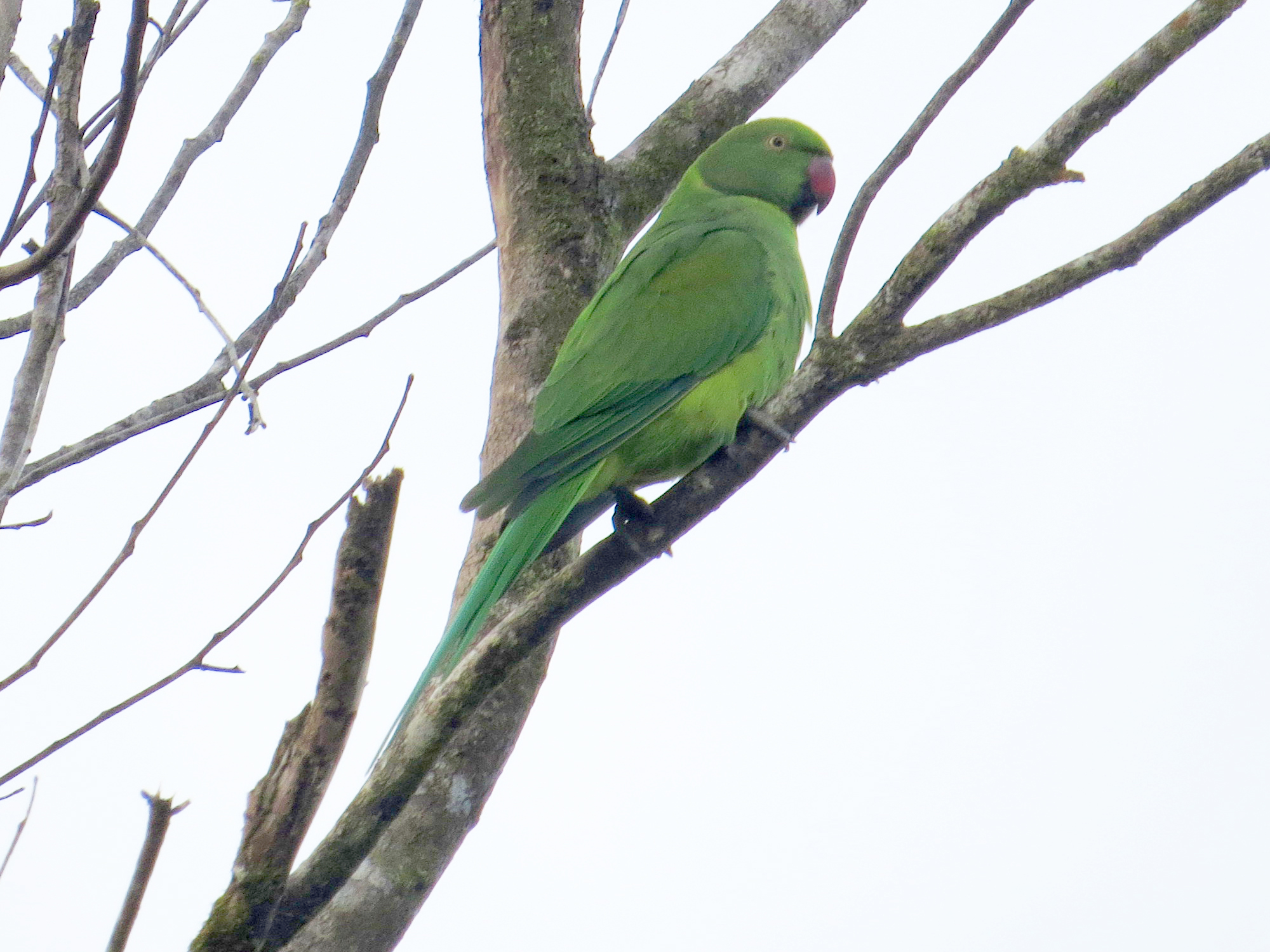 Echo parakeet near Le Pétrin, Mauritius (05/2016).